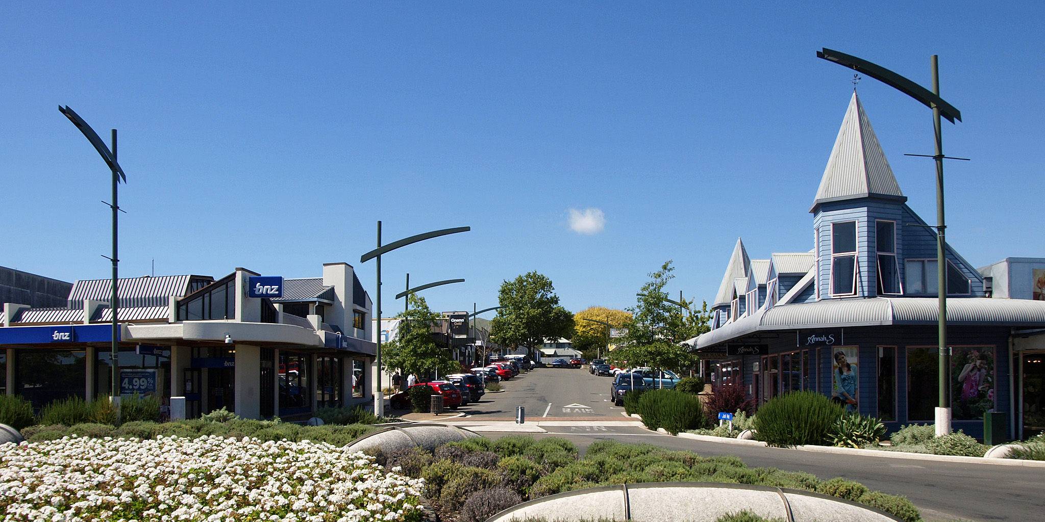 Havelock North, Hawke's Bay Region, New Zealand. One of the six roads from town center which are in radial order.